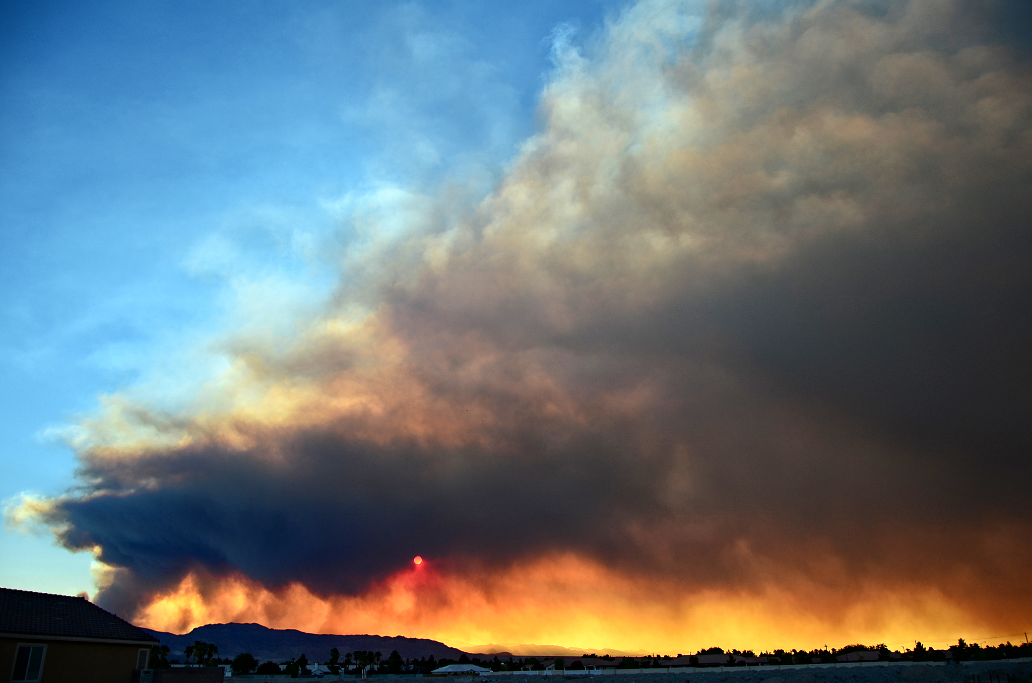 North Las Vegas TDelCoro July 8, 2013 The fire... left of the photo - "There are the following air assets on the fire: 7 helicopters, 4 heavy air tankers, 39 engines, 10 water tenders and a large DC-10 air tanker that can drop nearly 12,000 gallons of fire retardant or water."